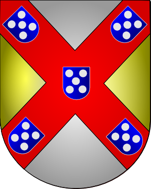 Arms of the Portuguese Counts of Faro (do Alentejo). Made by JSobral